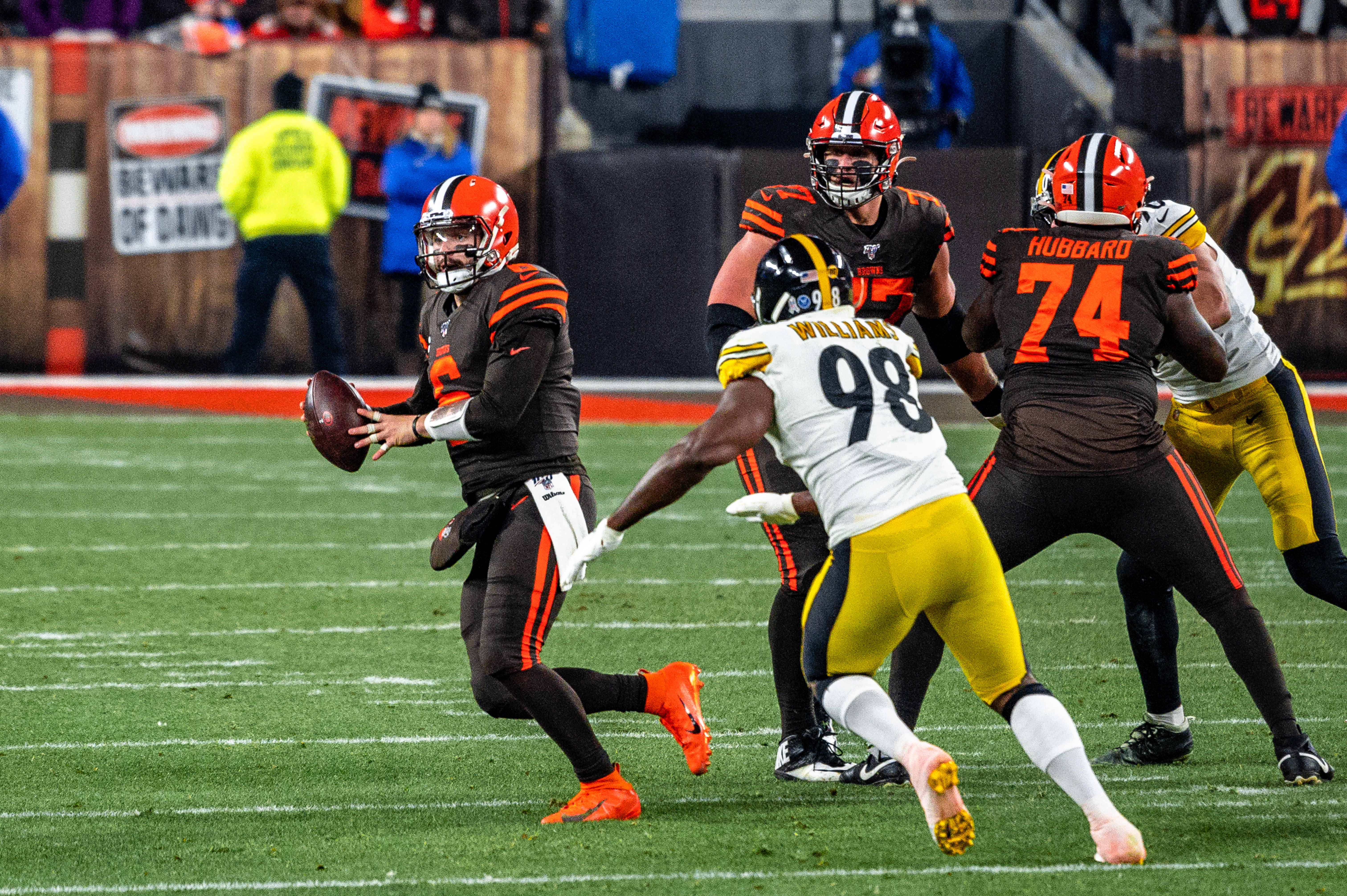 Steelers vs Browns 2019